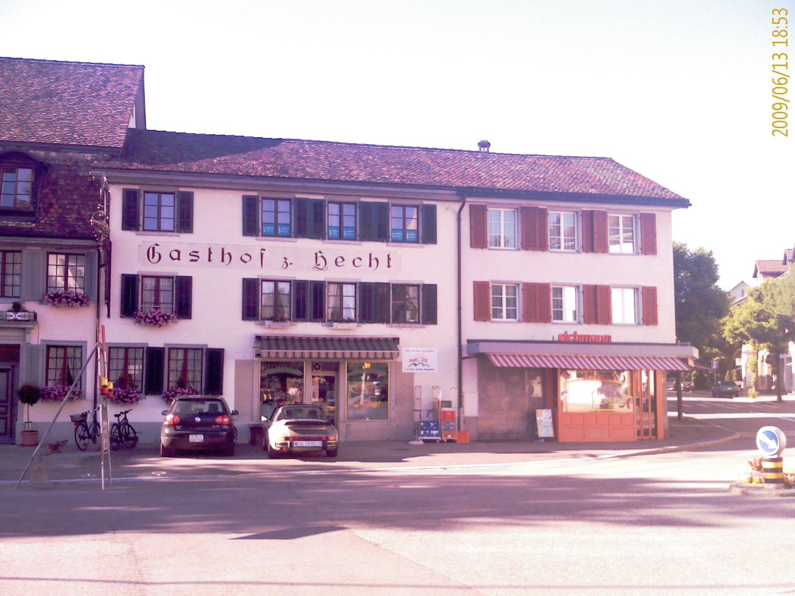 Guest house zum Hecht Pfäffikon, canton of Zürich, SwitzerlandEsperanto: Gastejo zum Hecht en Pfäffikon, Kantono Zuriko, Svislando